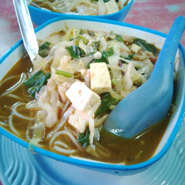 Thukpa is a noodle soup of Tibetan origin very popular as a fast street food in Chandigarh(India). The picture here shows cheese thukpa with cottage cheese. This is a vegetarian variant of the dish with vegetables cottage cheese (paneer) noodles and a spicy broth.